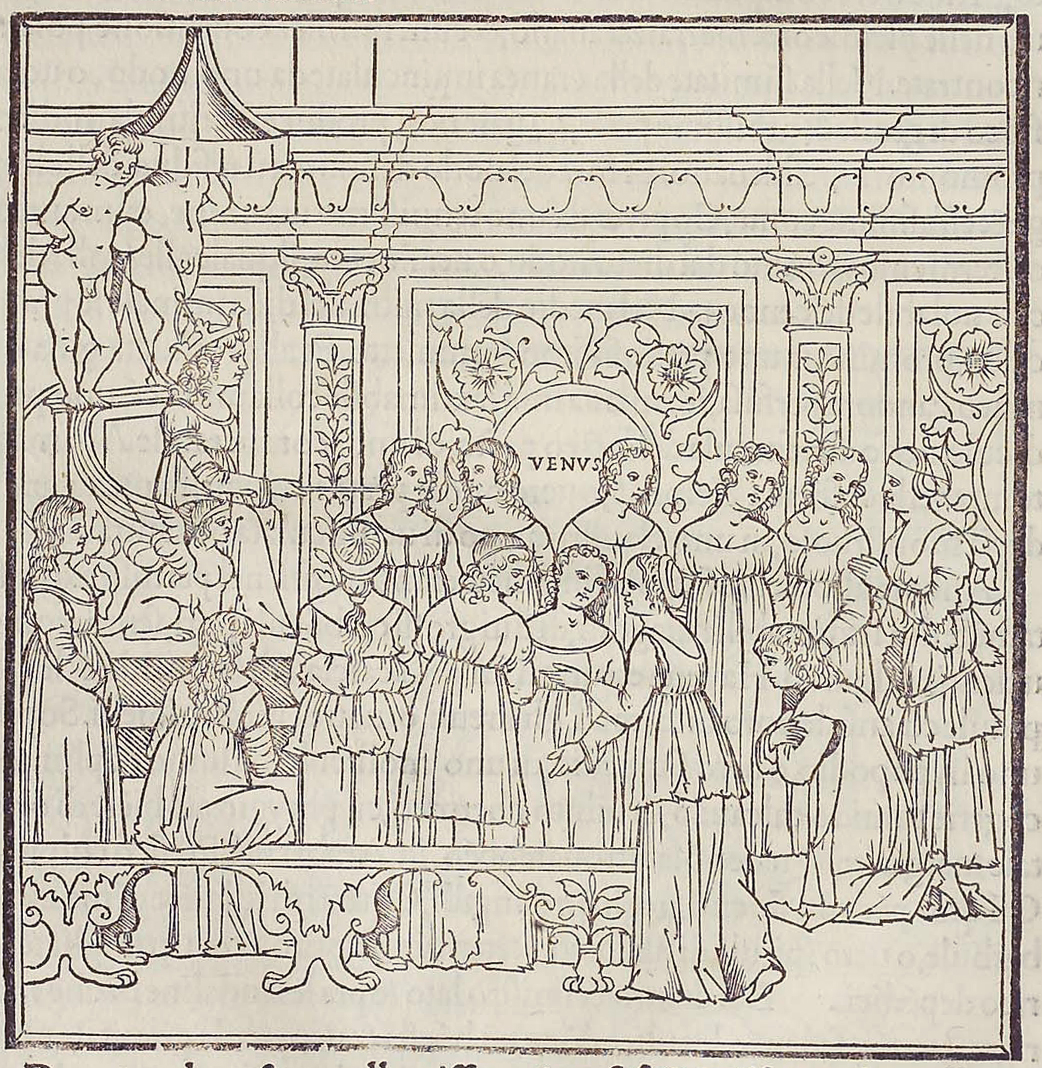 Poliphilo kneels before Queen Eleuterylida. Illustration from "Hypnerotomachia Polifili" printed by Aldus Manutius about 1499.